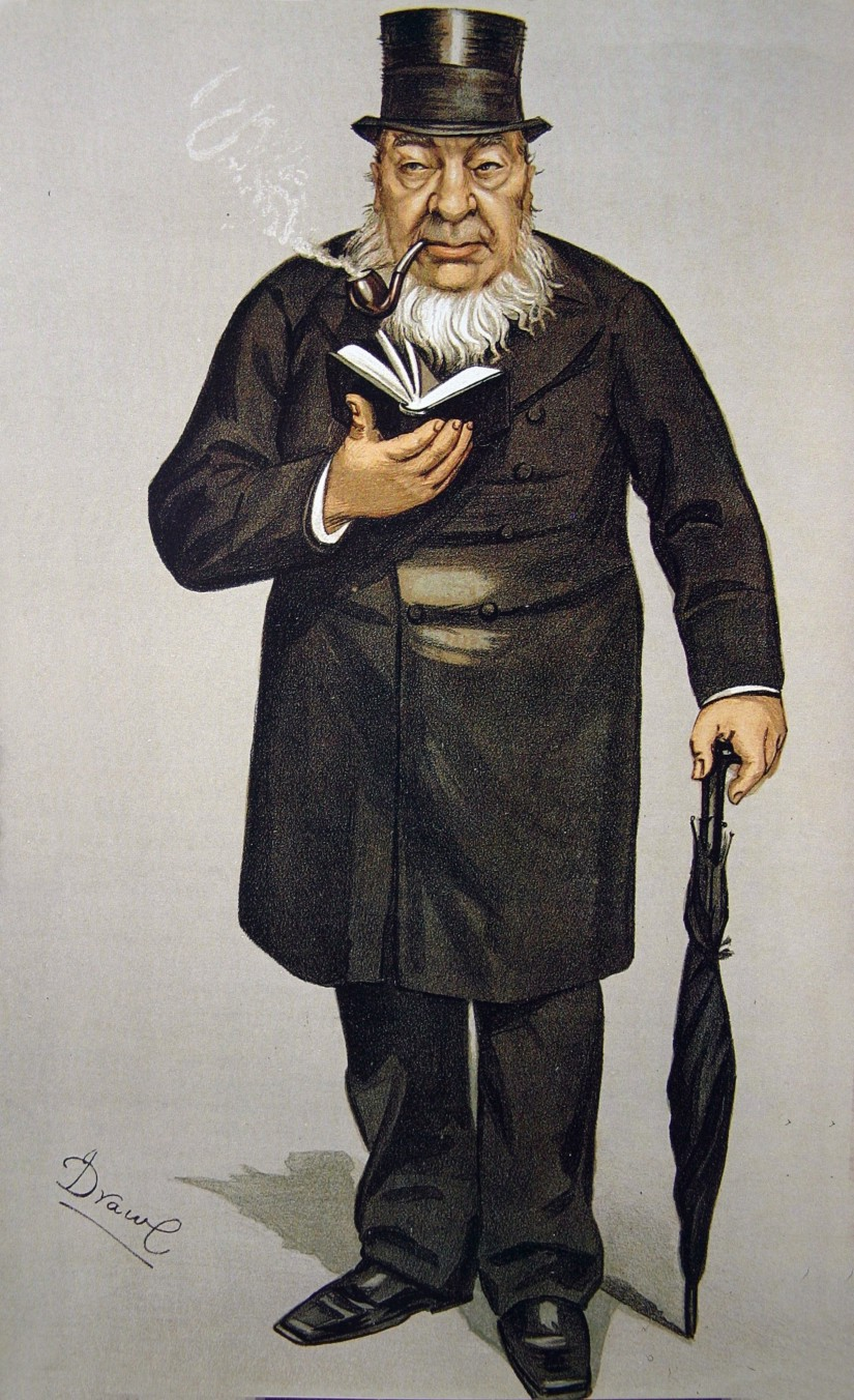 Paul Kruger (Stephanus Johannes Paulus Kruger) 1825 – 1904, president of the Transvaal Republic in South Africa. Caption reads "Oom Paul".